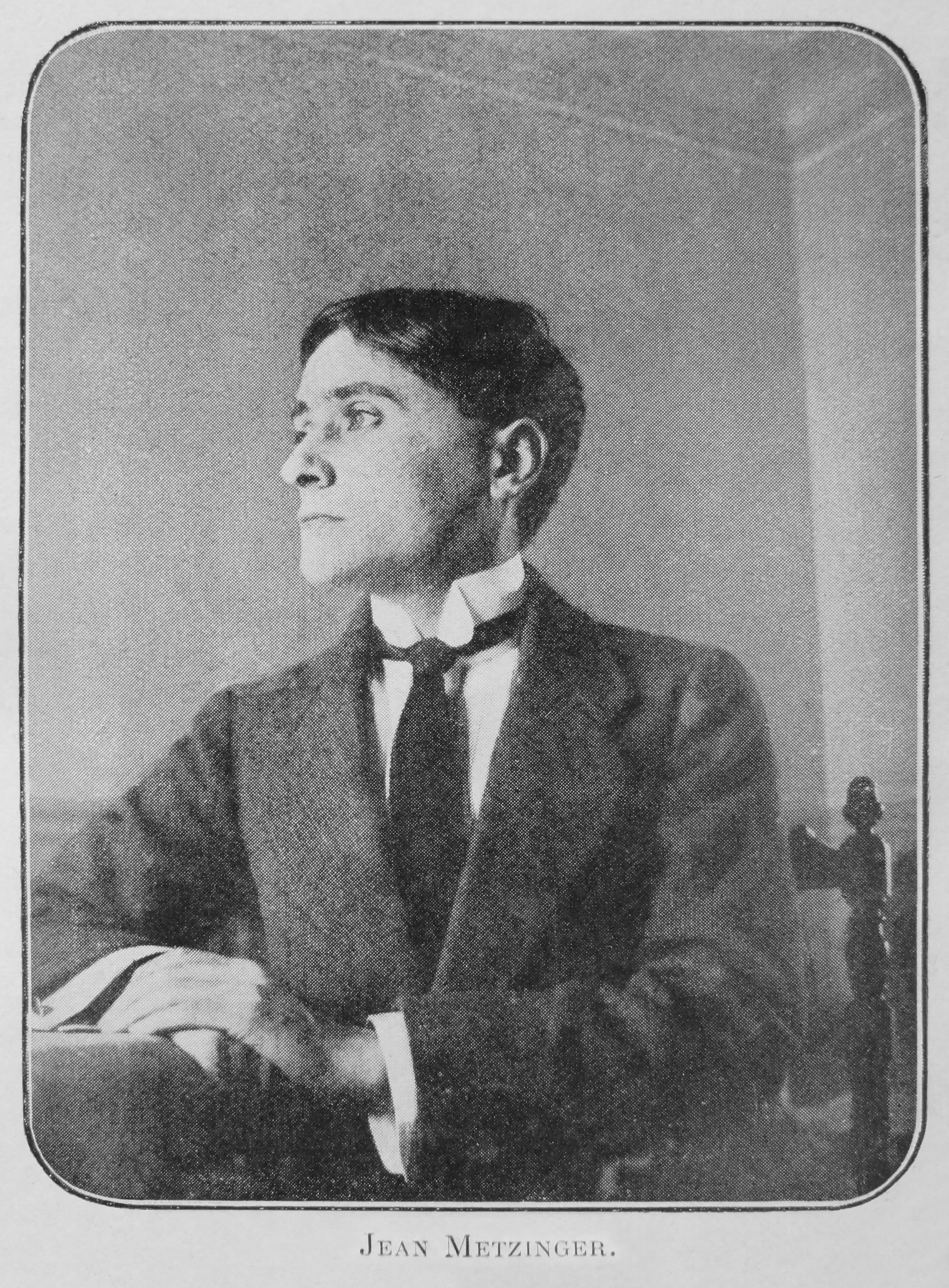 Jean Metzinger, portrait photograph, published in Les Peintres Cubistes, 1913